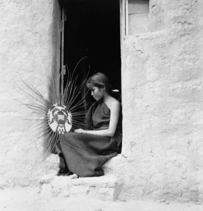 Hopi basketweaver. In doorway of Hopi dwelling.